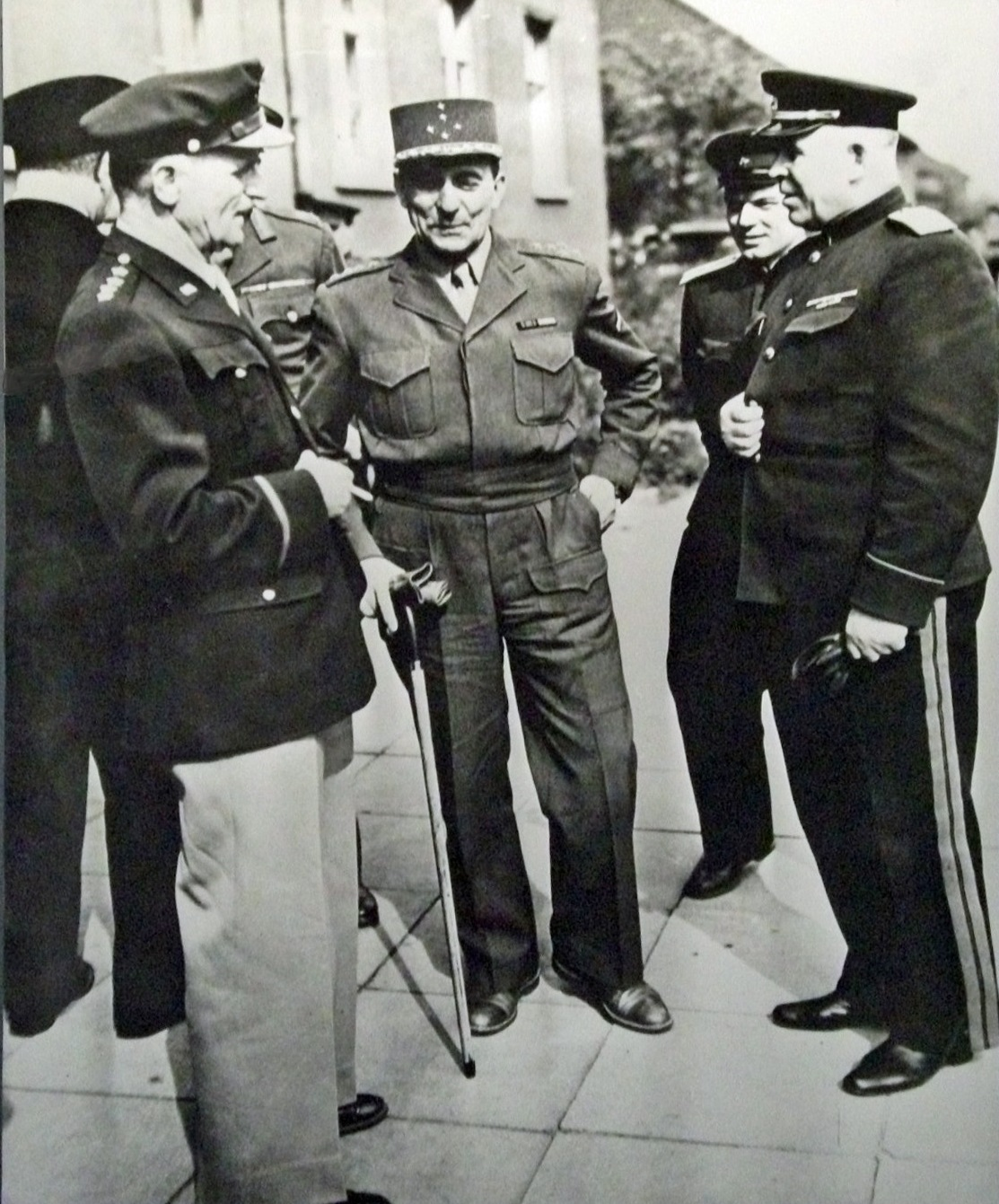 From left to right : Carl Spaatz, Jean de Lattre de Tassigny, Ivan Susloparov posing in front of the SHAEF building in Reims, May 1945.